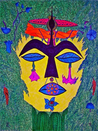 Etching titled Goddess of ecstasy by Christian W. Staudinger